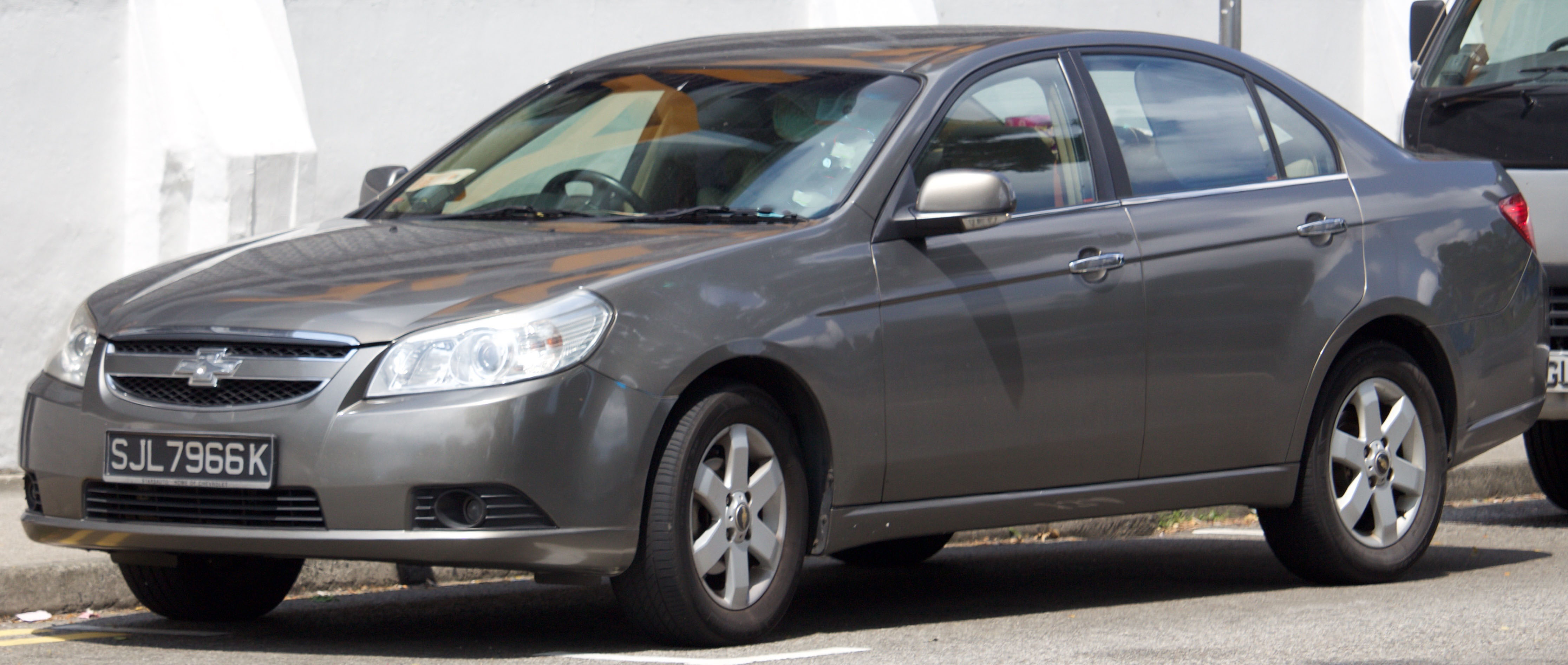 2008 Chevrolet Epica (V250) LS sedan, photographed in Singapore. Vehicle registration enquiry resultsJurisdictionSingaporeRegistrationSJL7966KChassis codeKL1LA69K18B125898Engine codeX20D1103286KYear of manufacture2008